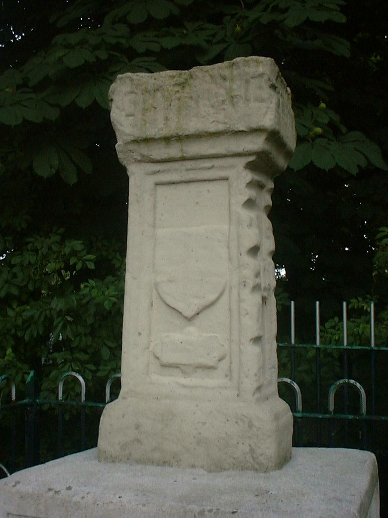 The London Stone beside the River Thames at grid reference TQ 028 717 in the Lammas Pleasure Ground, Staines. Details and more images. Images of England entry with details of the inscriptions.